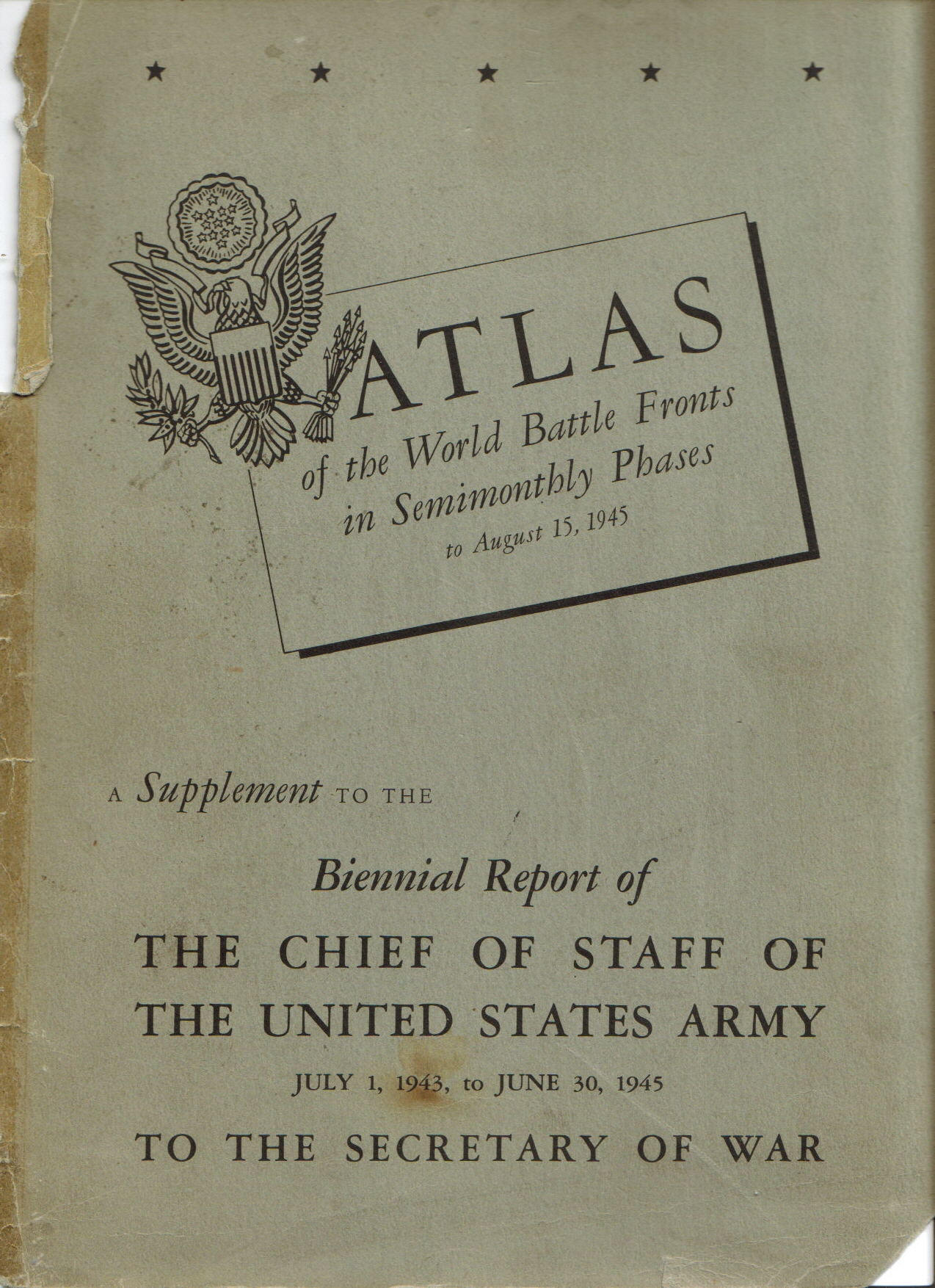 Forward to WW2 Battlefront Atlas